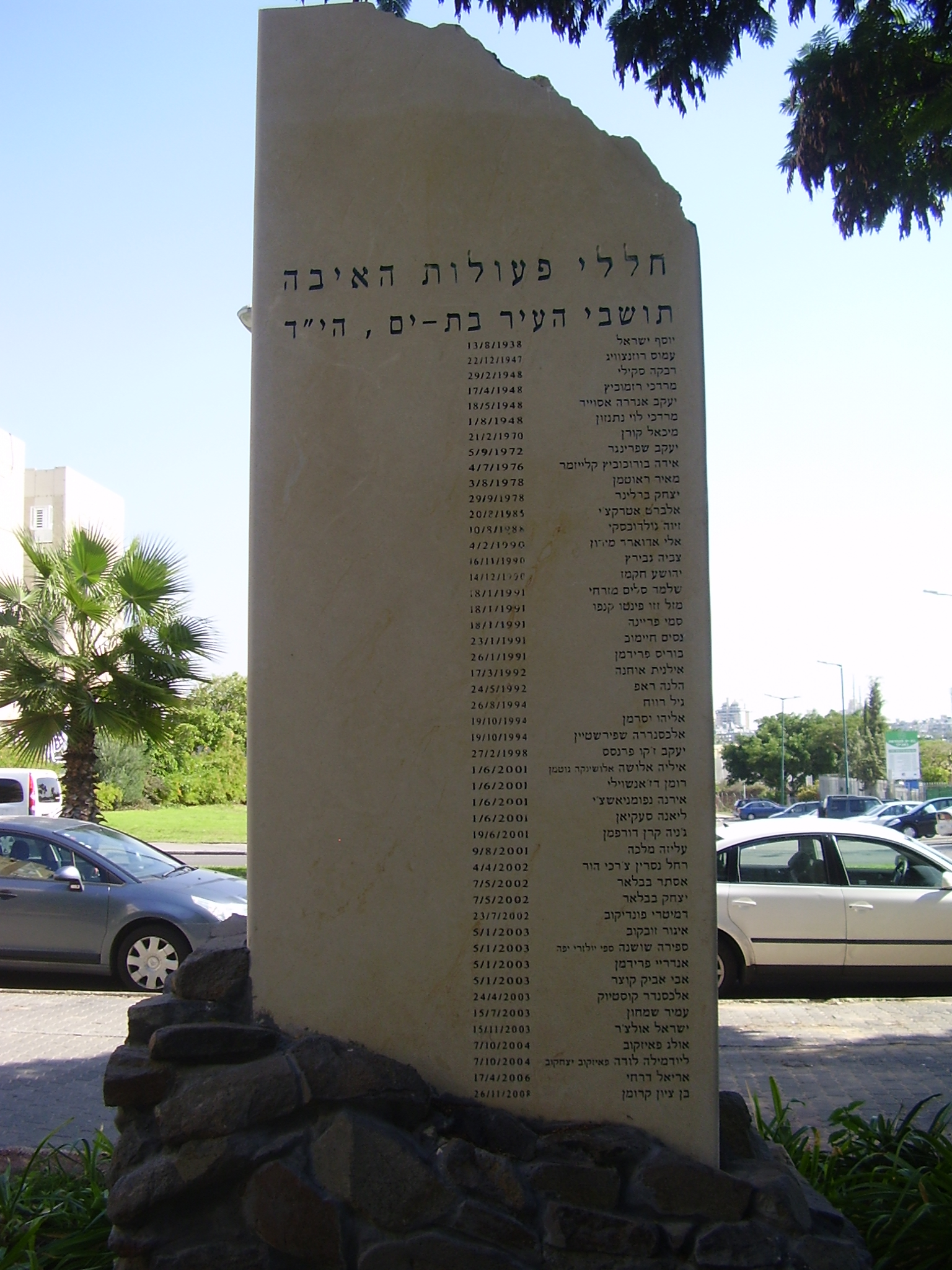 terror victims memorial in bat yam אנדרטה ל-48 תושבי בת ים, קרבנות פעולות האיבה